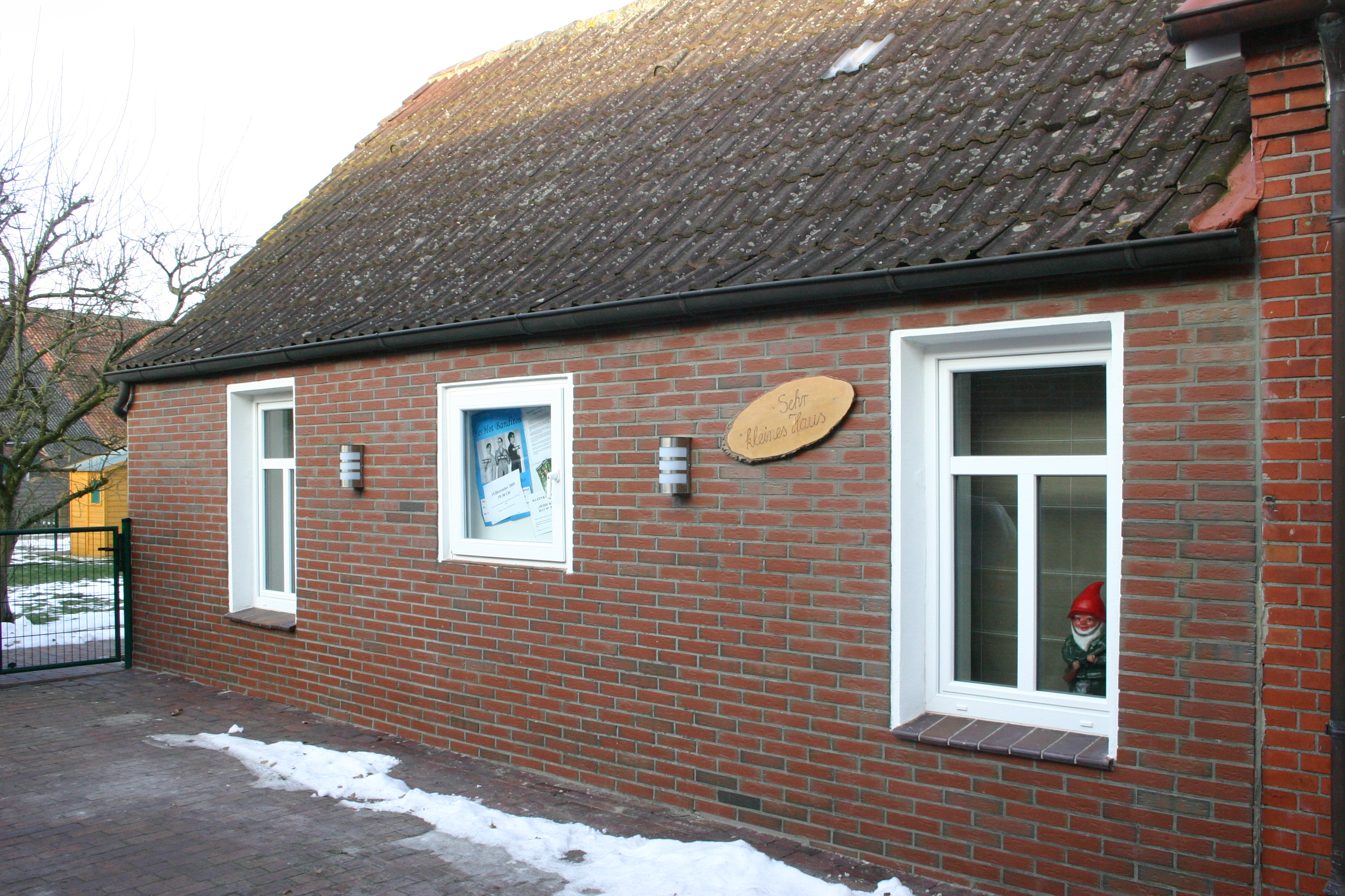 Cabaret theater "Sehr kleines Haus" in Pilsum, community of Krummhoern, district of Aurich, East Frisia, Germany